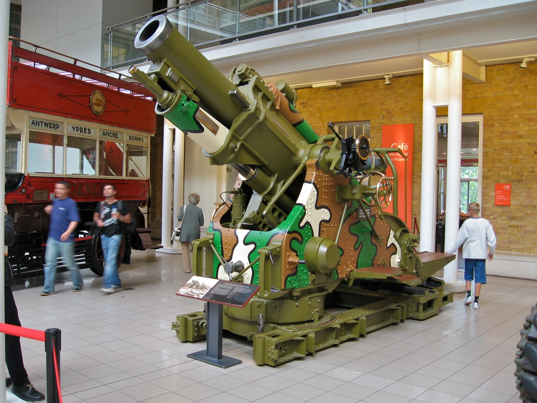 British BL 9.2 inch Mk I Howitzer "Mother", the original prototype seen in the Malins film of the Battle of the Somme, at the Imperial War Museum, London. The gun is the original prototype, but the original prototype carriage was later replaced by the standard Mark I production carriage shown here. The gun carriage and recoil system are painted in a typical WWI dazzle camouflage scheme. The barrel itself is painted in peacetime olive drab with the muzzle "bright" - it was probably also painted in the same dazzle camouflage pattern in WWI. For other views see also : File:9.2 inch howitzer Mother IWM left rear.jpg File:BL 9.2 inch Howitzer Mother IWM 3 April 2008.jpg